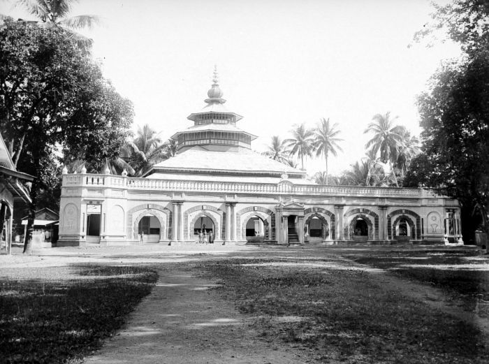 Mosque